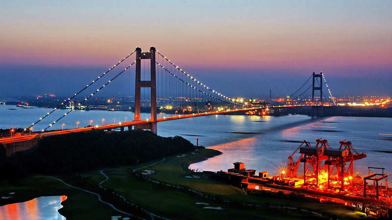 Taken by Alex Z Huang